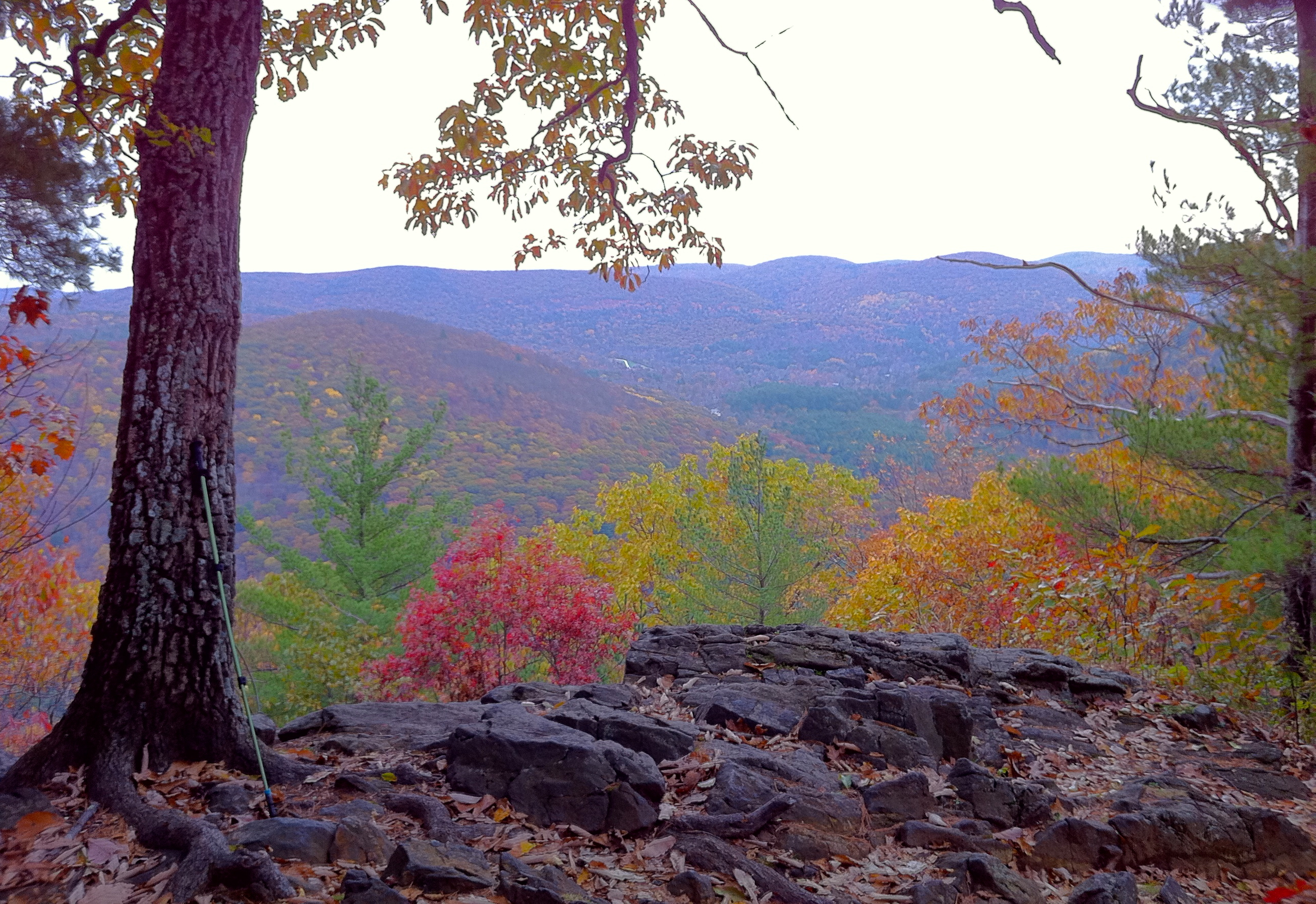 Appalachian Trail's Pine Knob Loop Trail section (in Housatonic Meadows State Park) scenic overlook of the Housatonic River valley in Sharon and Cornwall, CT.